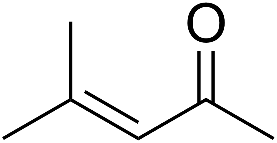 chemical structure of mesityl oxide